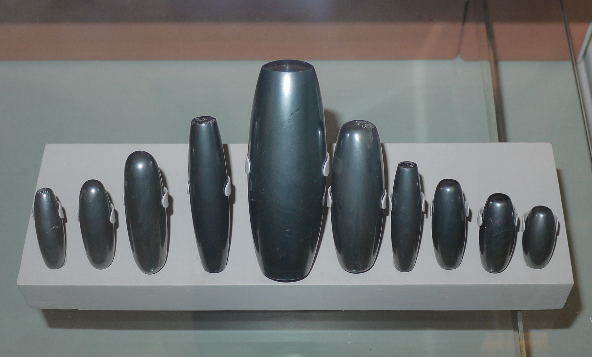 Photo of Mesopotamian weights made from haematite. The largest weighs 1 mina and the smallest 3 shekels